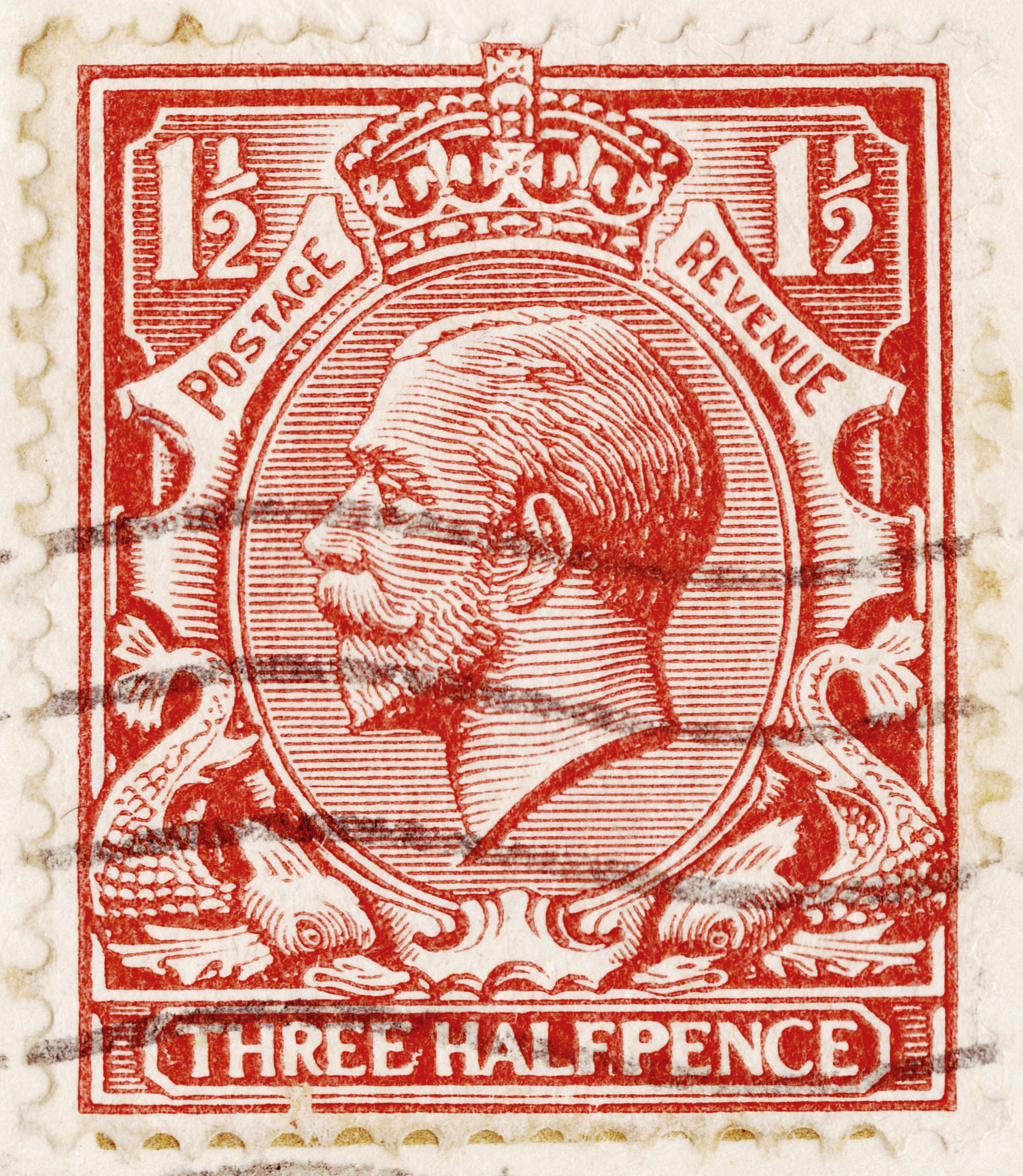 Scan of United Kingdom 1 1/2-pence stamp of 1912.